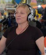 Fred Thomson interview with Eleanor Mondale, Minnesota State Fair